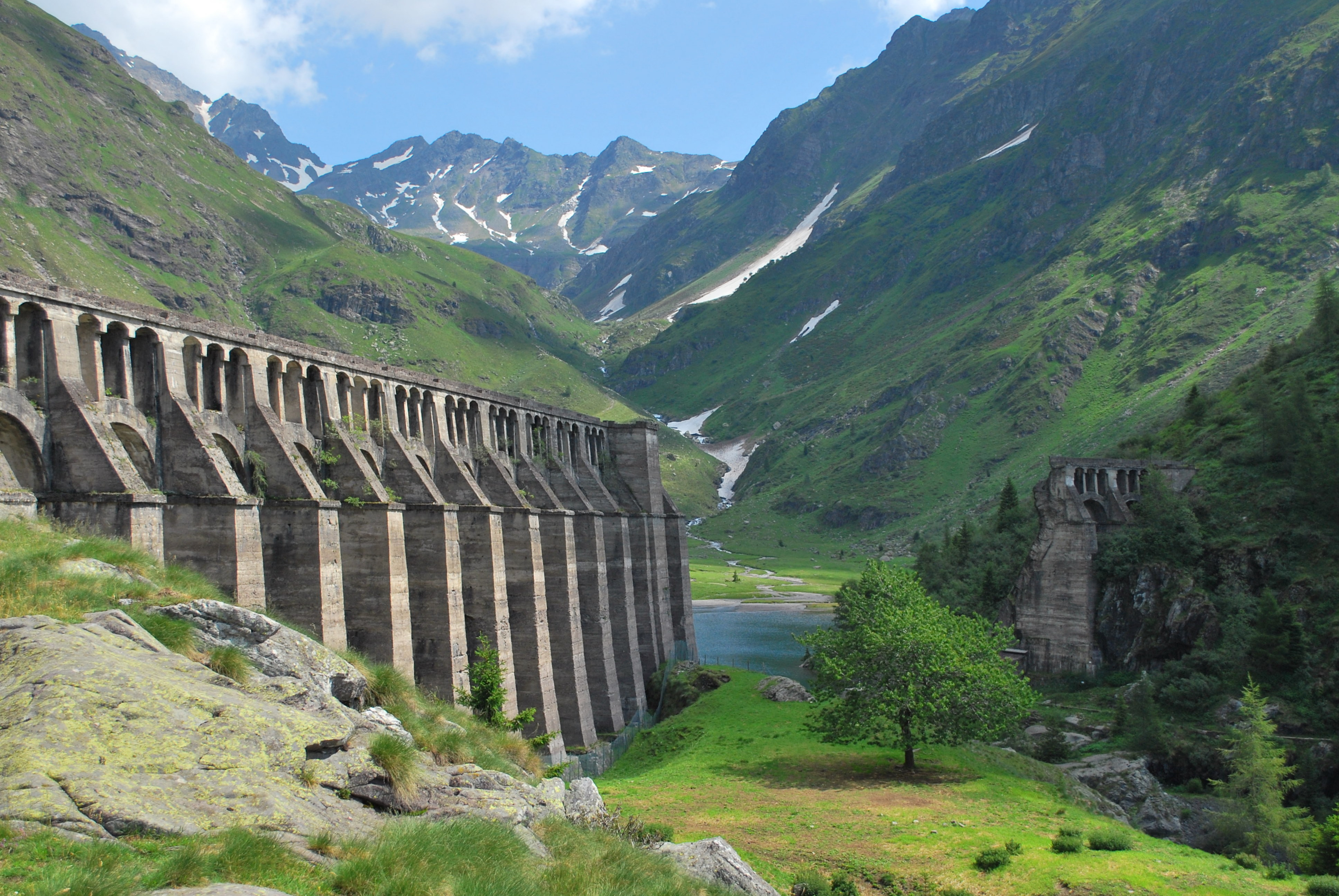 Gleno Dam